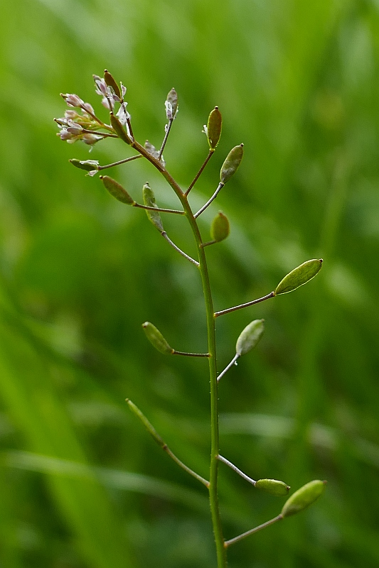 Draba muralis (Brassicaceae) (Wall Whitlowgrass) - (fruit-bearing), Culemborg - Korte Hoeven, the Netherlands